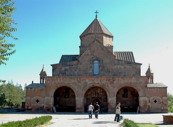 St. Gayane church, Echmiadzin, Armenia